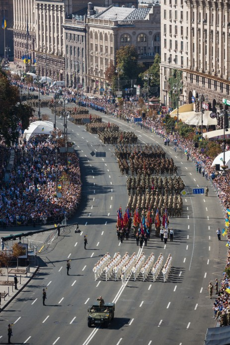 Independence Day military parade in Kyiv. August 24th, 2015